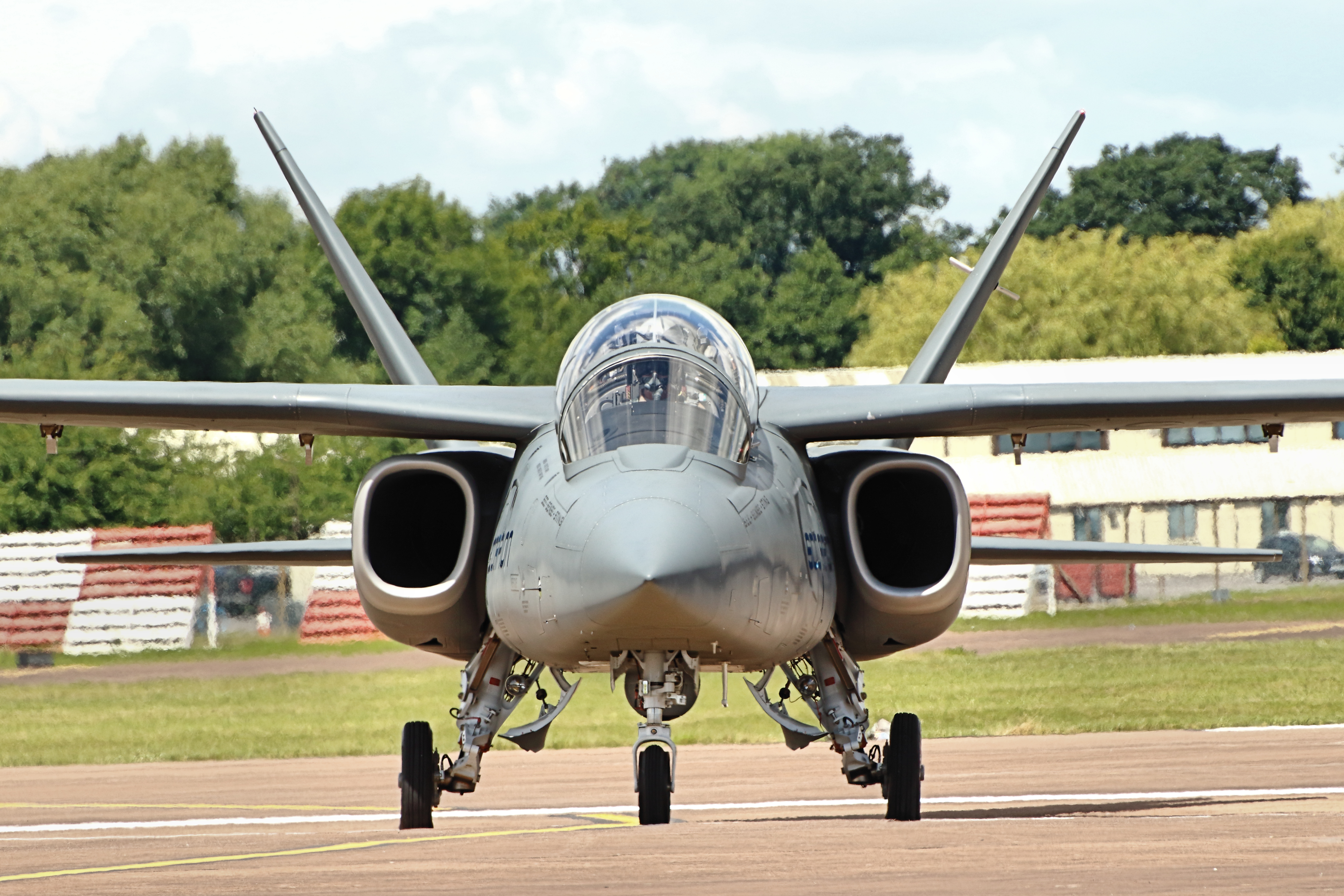 Scorpion - RIAT 2016